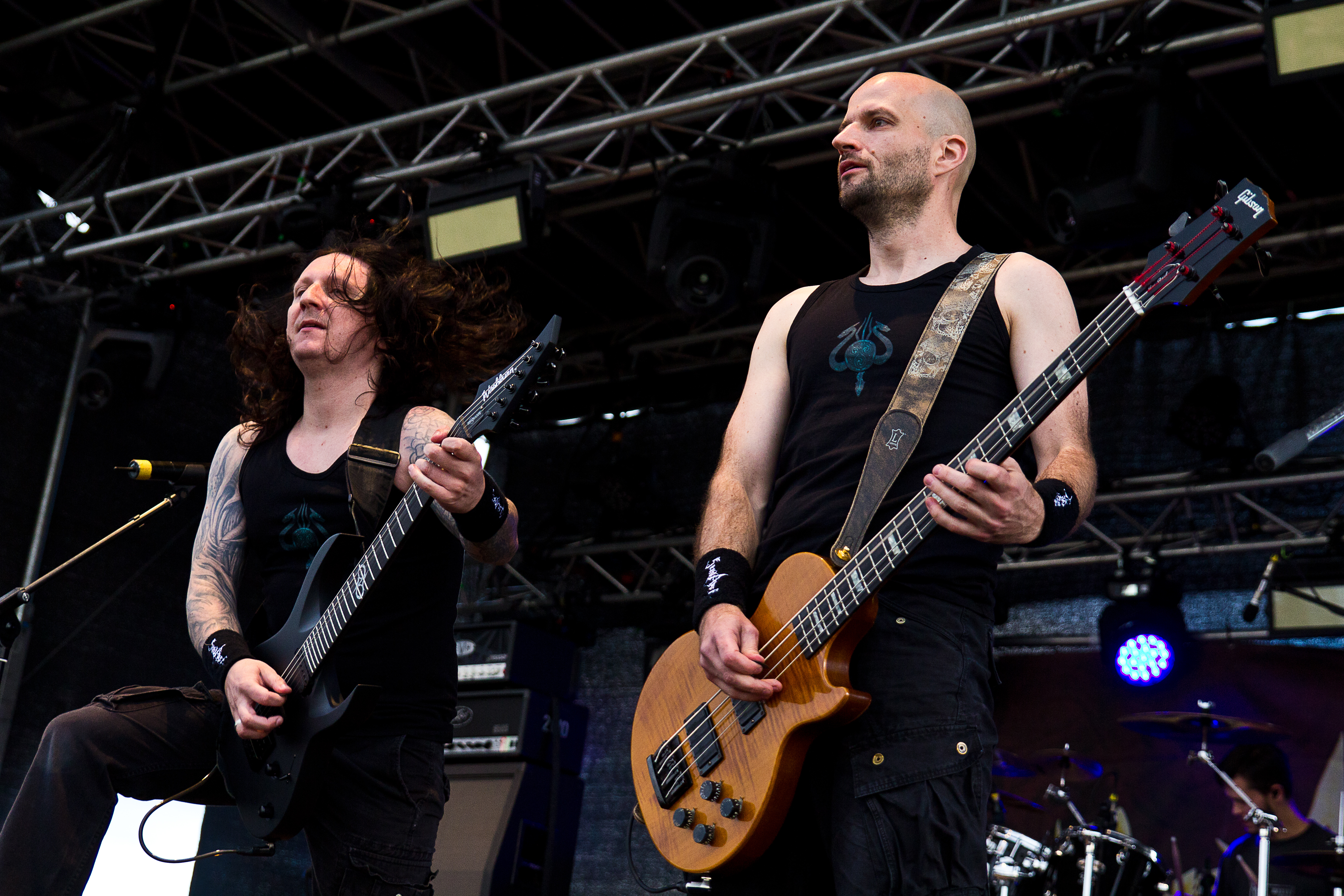 The German melodic death metal band Suidakra at the Rockharz Open Air 2015 in Ballenstedt/Germany.